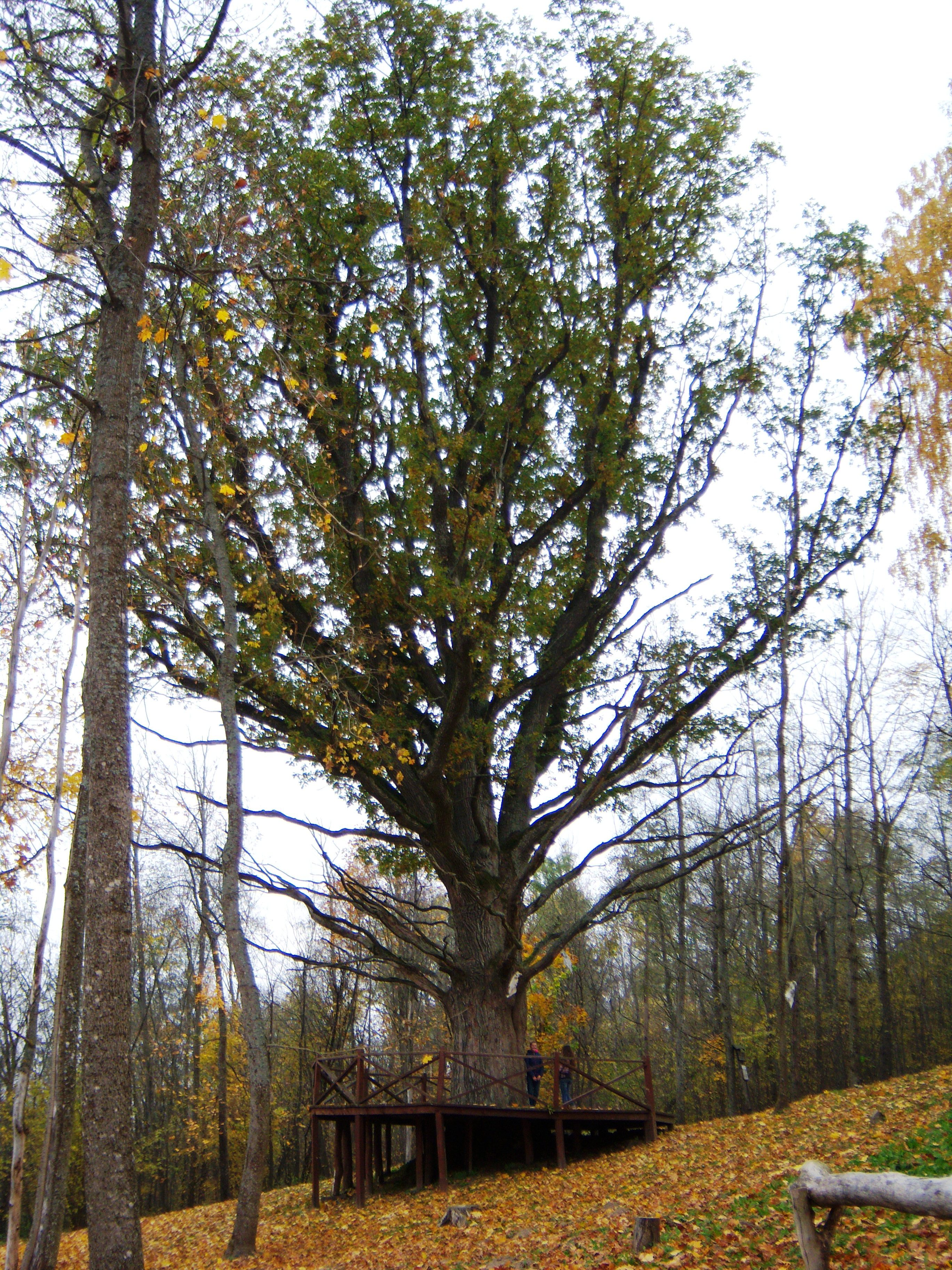 Oak in Žažumbris, Anykščiai Lithuania